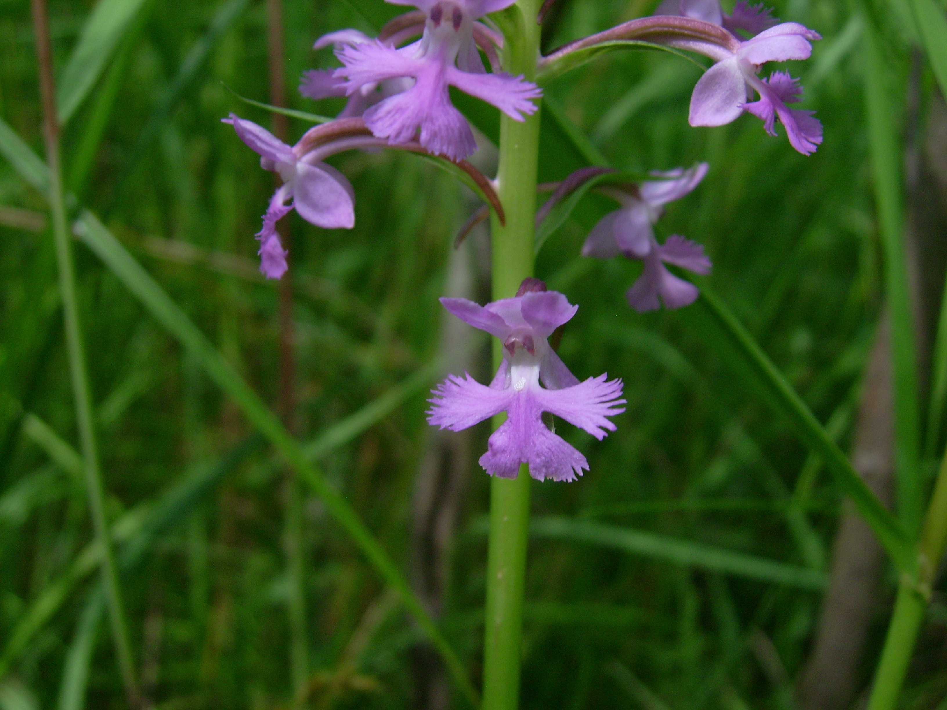 Small purple fringed orchid (Platanthera psycodes), Whitefish Island, Batchewana First Nation